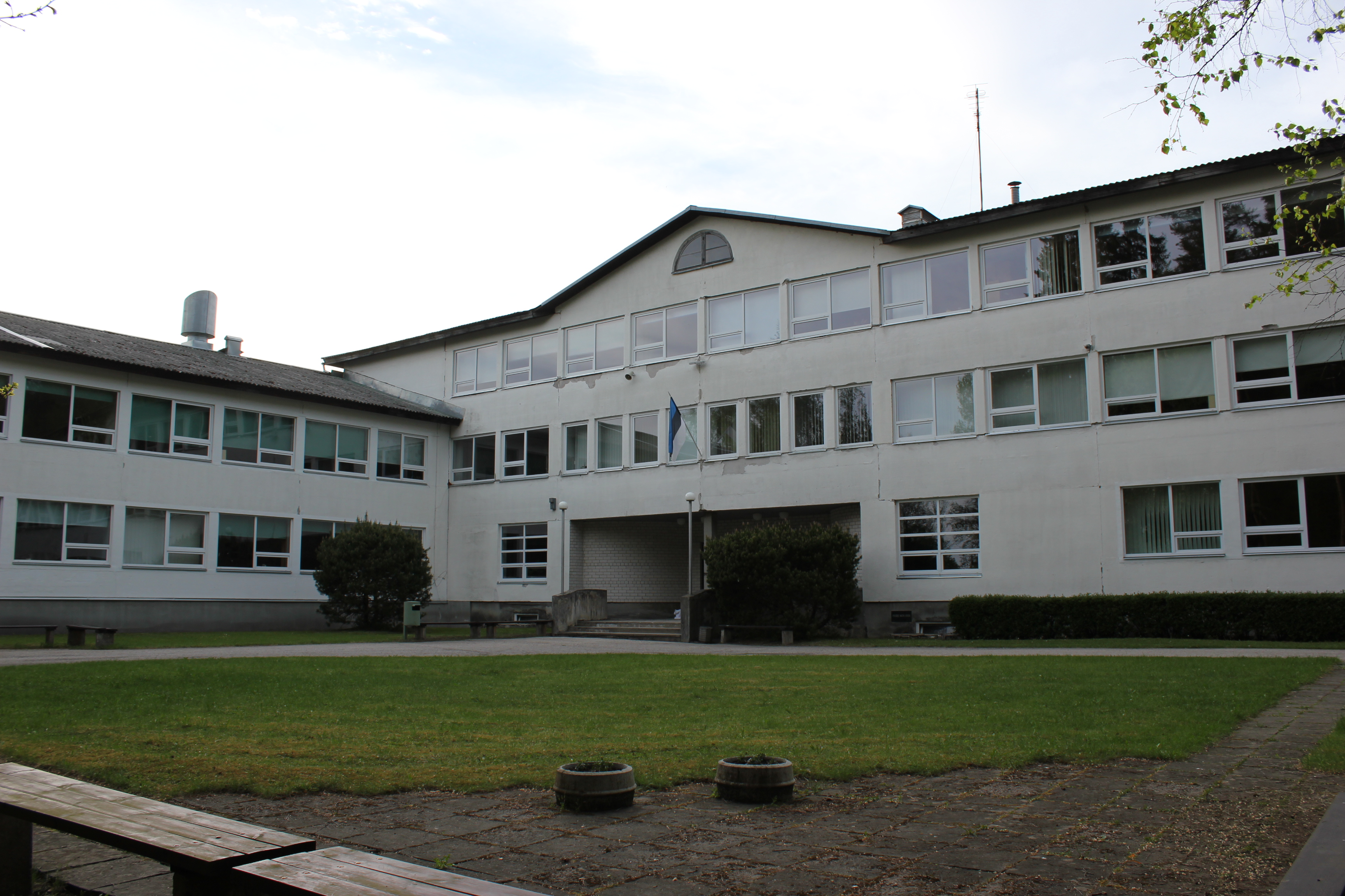 School in Estonia, Türi. Türi Co-Gymnasium